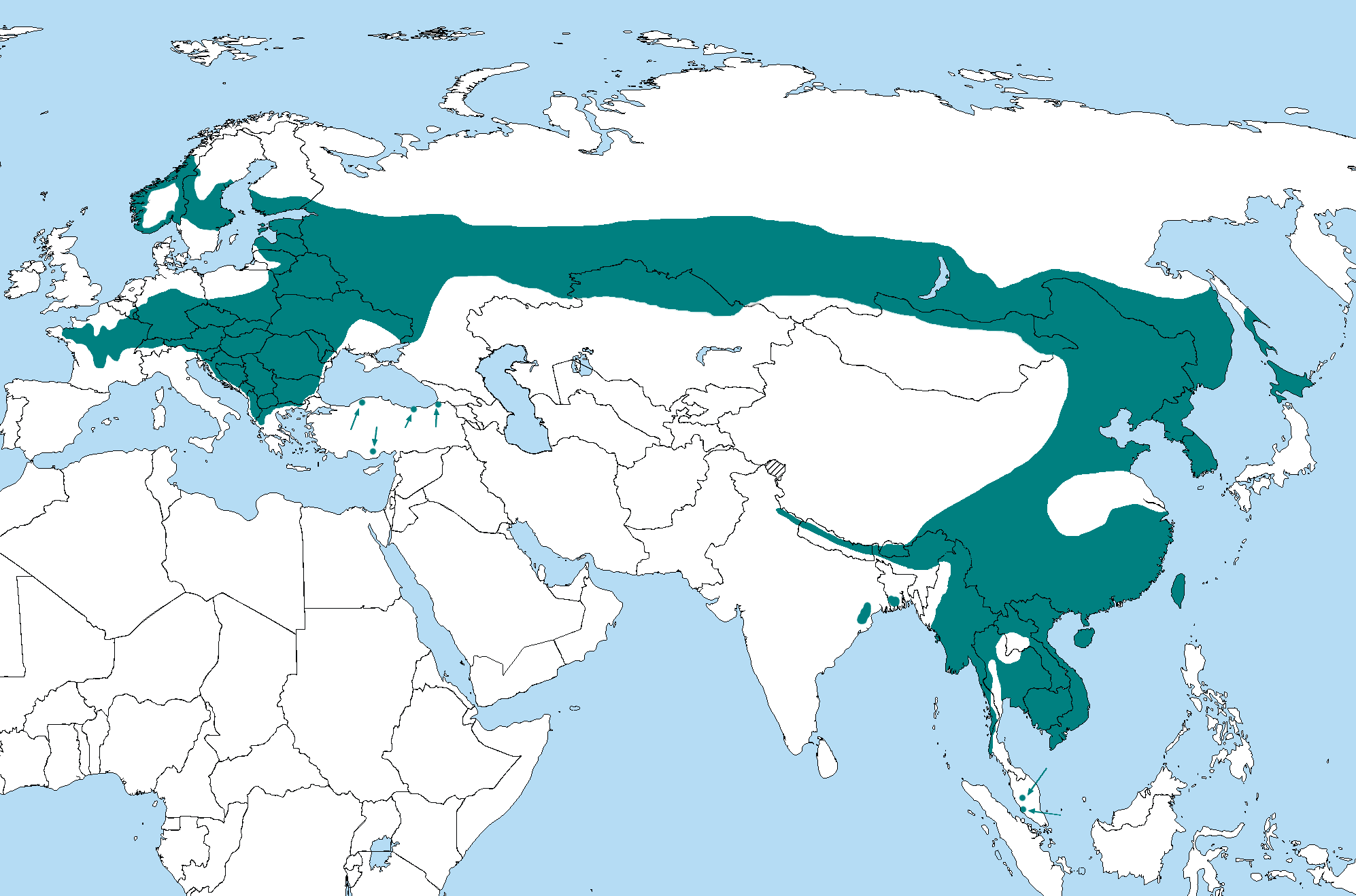 Distribution map of Grey-headed Woodpecker (Picus canus) in Europe und Asia